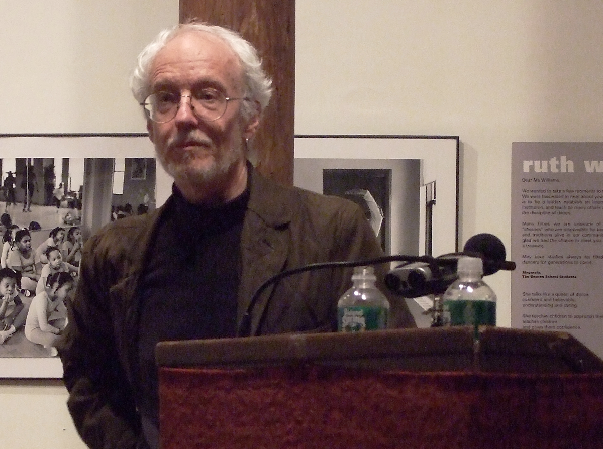 James Morrow scifi writer